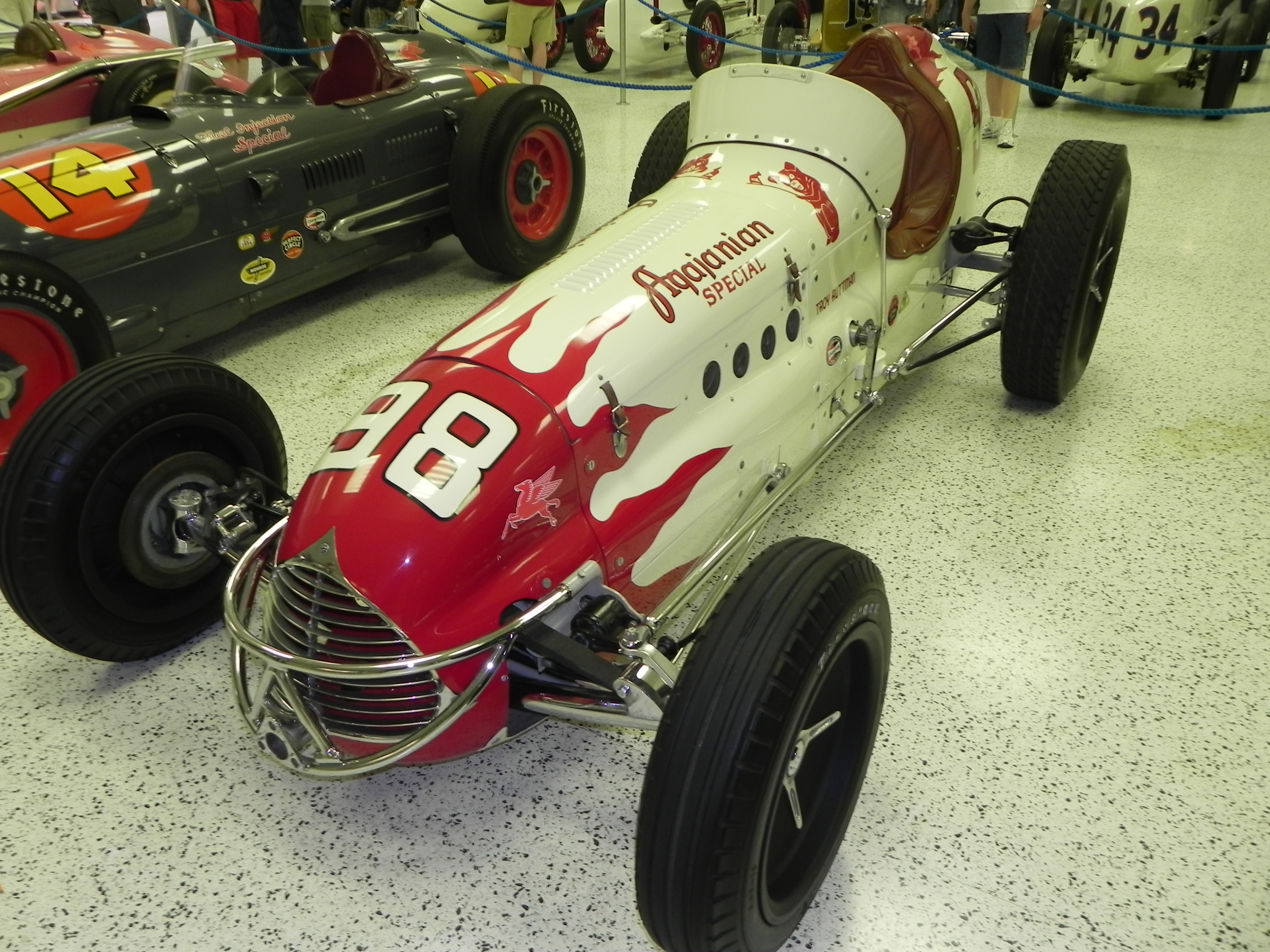 Image of the winning car of the 1952 Indianapolis 500 (Troy Ruttman). Photo was taken at the Indianapolis Motor Speedway Hall of Fame Museum, during the month of May 2011, at the 100th Anniversary "Ultimate Indianapolis 500 Winning Car Collection."